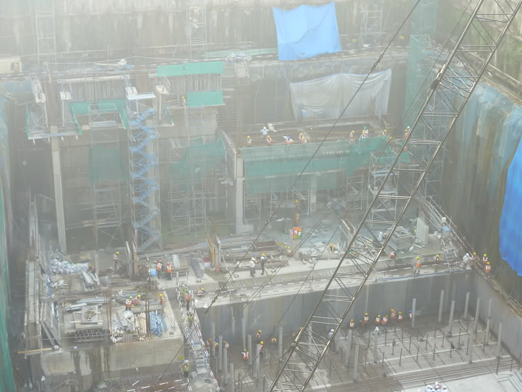 India Tower Construction Images.